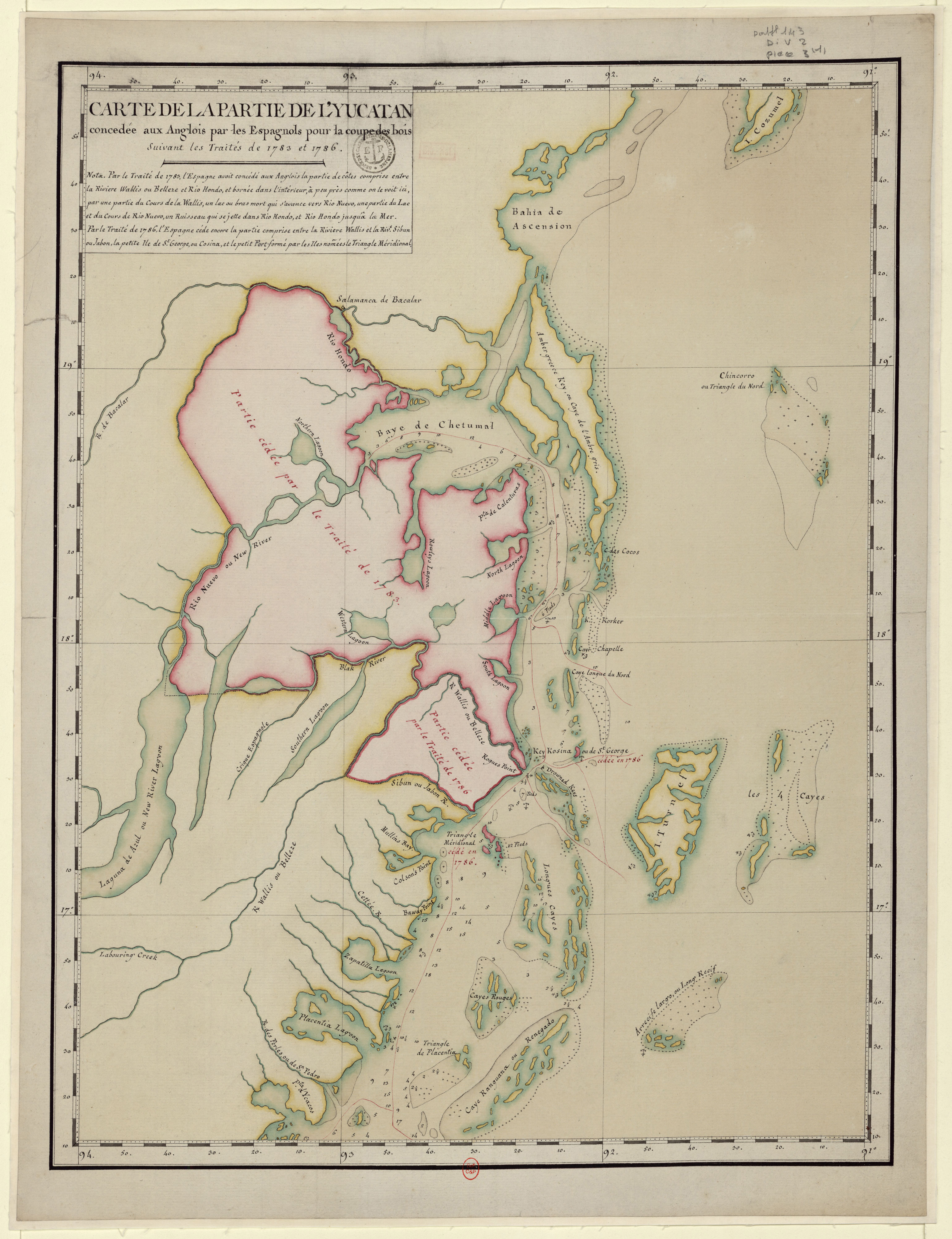 Map of the part of the Yucatan conceded to the English by the Spaniards for the cutting of wood, according to the Treaties of 1783 and 1786